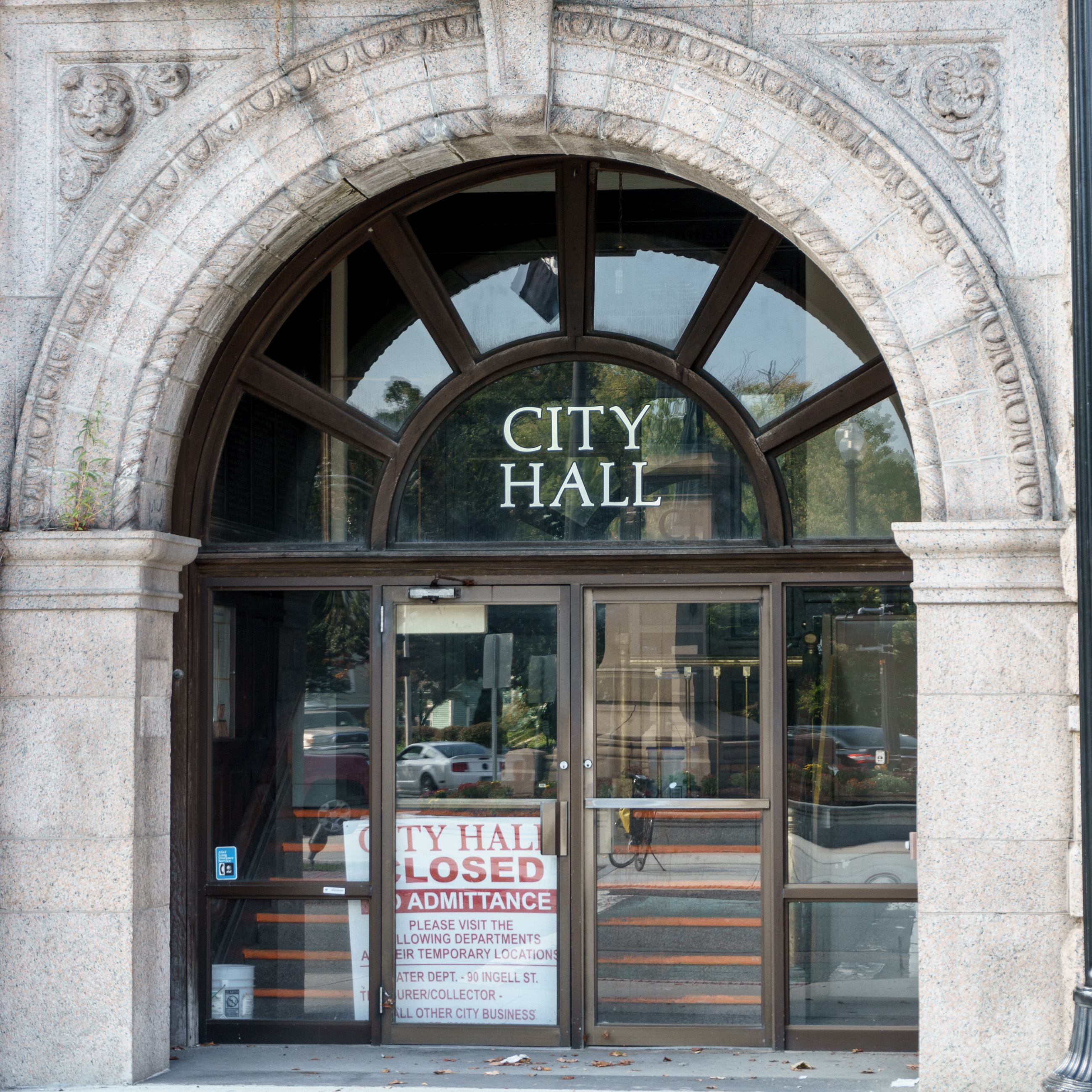 Taunton, Massachusetts City Hall is still closed in September 2015 due to fire damage.